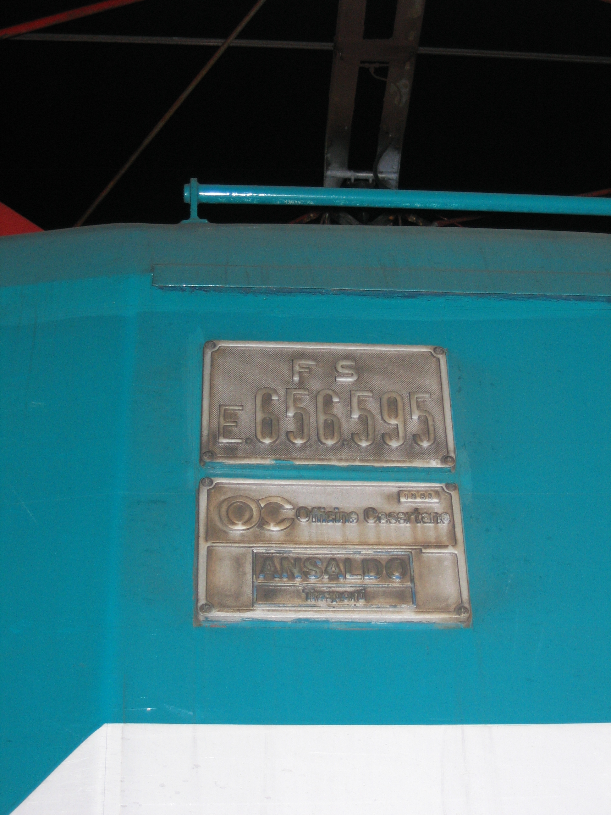 FS E.656.595 side plaque. Photo taken in Terni, Italy